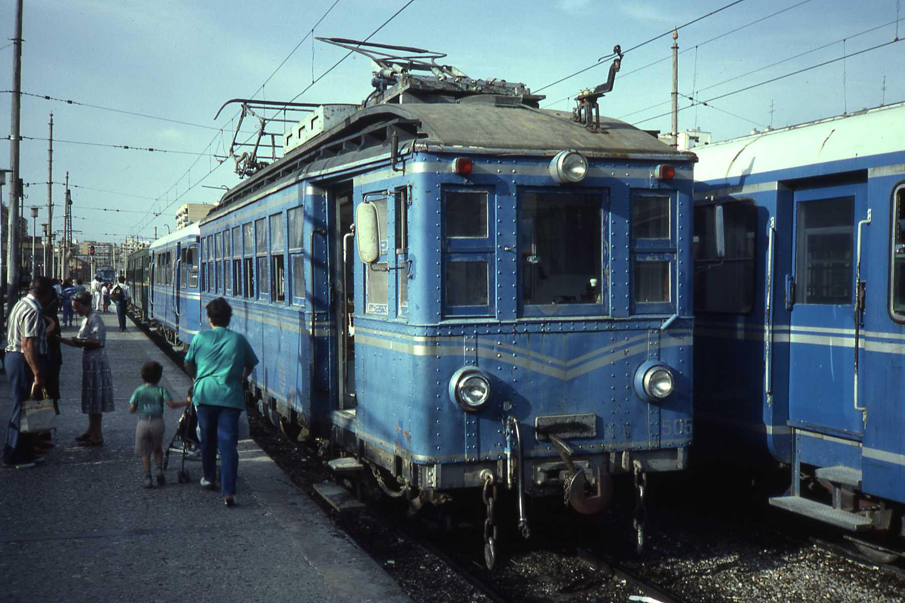 Old electric car in the regional "Pont de Fusta" railway station in Valencia in 1987.